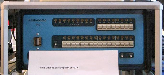 Iskradata 1680, a computer developed by Iskradata in 1979. Photo taken by my brother at historical computer exhibition in Belgrade. I edited the photo slightly to make it more suitable for Wikipedia.